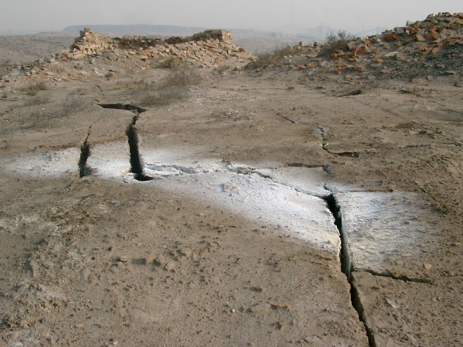 Soil cracked by the heat of a fire underlying mine with dry deposition (whitish bloom) Sino German Coal Fire Research Initiative